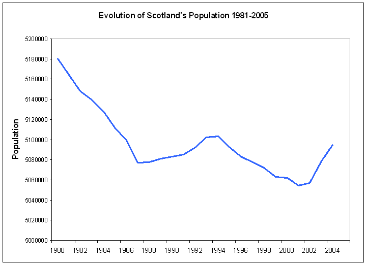 Scotland's population (1981-2005).